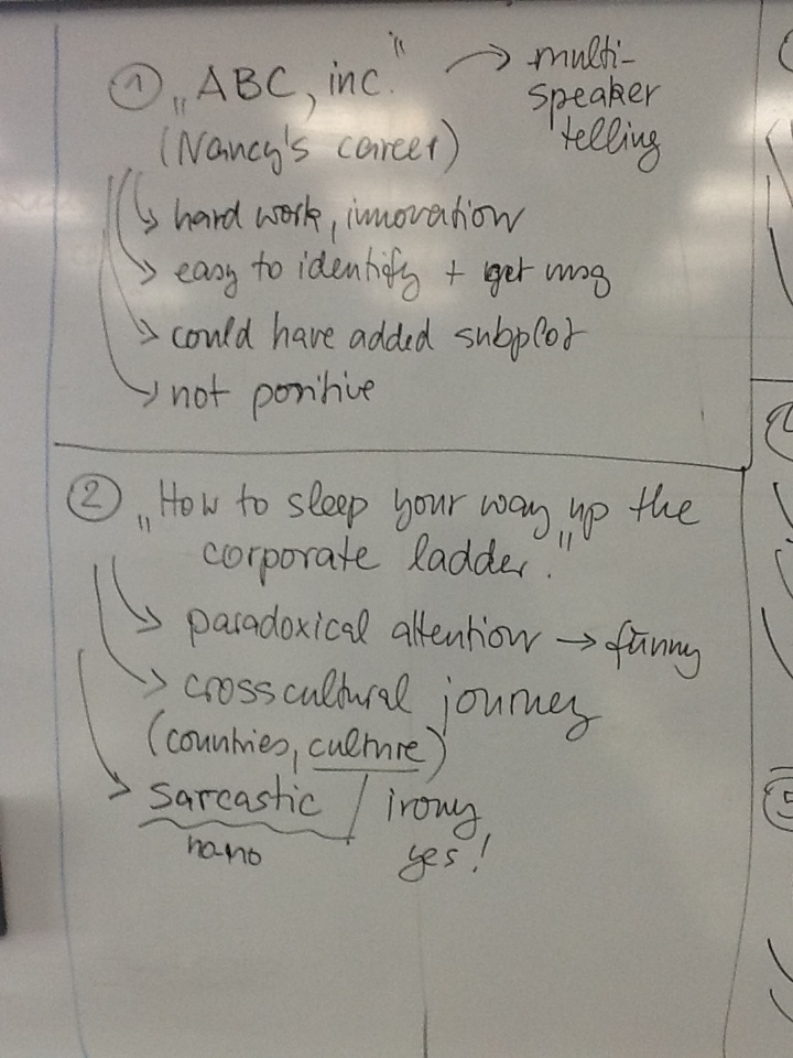 Summer School Berlin School of Economics 2013, European Business and Economics (EBEP)